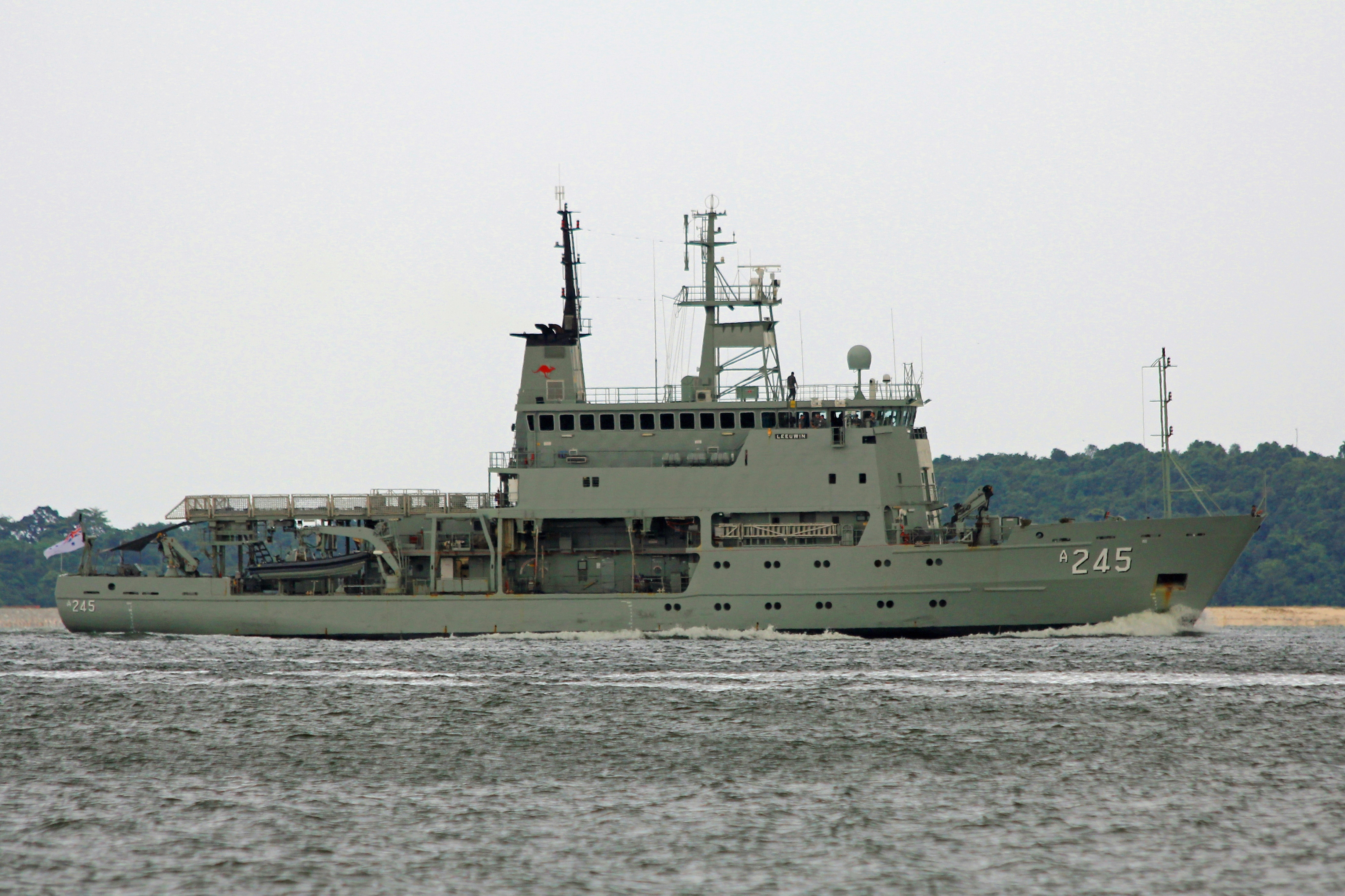 Photo of HMAS Leeuwin taken in Singapore.